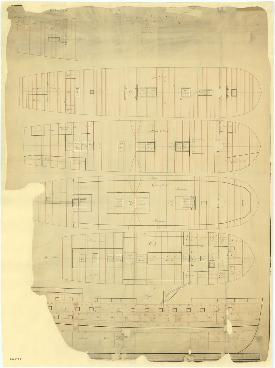 Monmouth (1796) Scale: 1:48. Plan showing the roundhouse, quarterdeck and forecastle with covered waist (spar deck), upper deck, gun deck (lower deck), orlop deck with fore & aft platforms, and inboard profile for Monmouth (1797), a purchased East India Company ship, converted a 64-gun Third Rate, and later fitted as a Victualling vessel in 1809. Part of the lower left area of the plan is missing, affecting the stern area of the inboard profile. Signed by Nicholas Diddams [Master Shipwright, Portsmouth Dockyard, 1803-1823]. MONMOUTH 1796